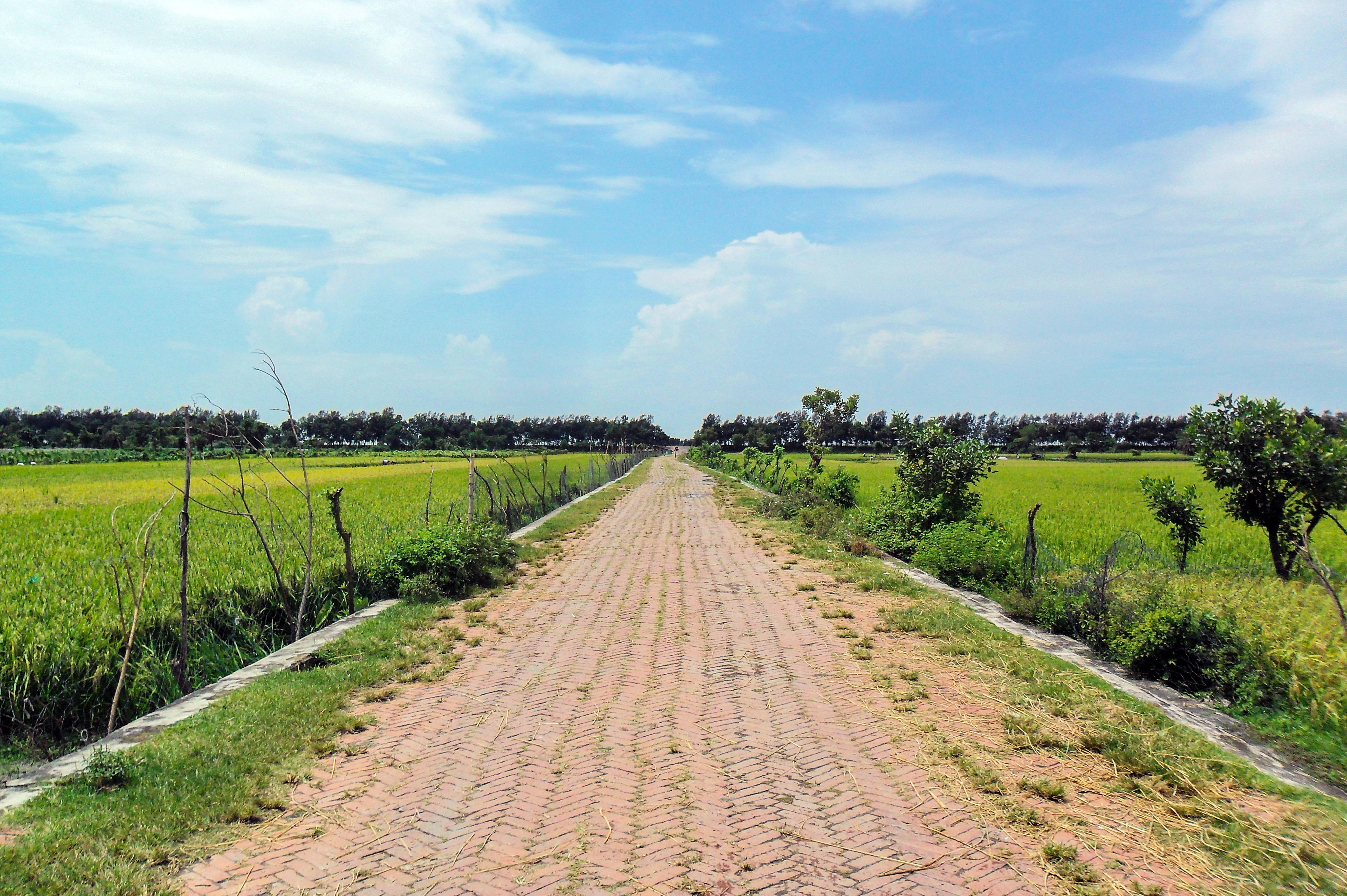 Anandabazar beach road (south-north axis), Halishahar, Chittagong.